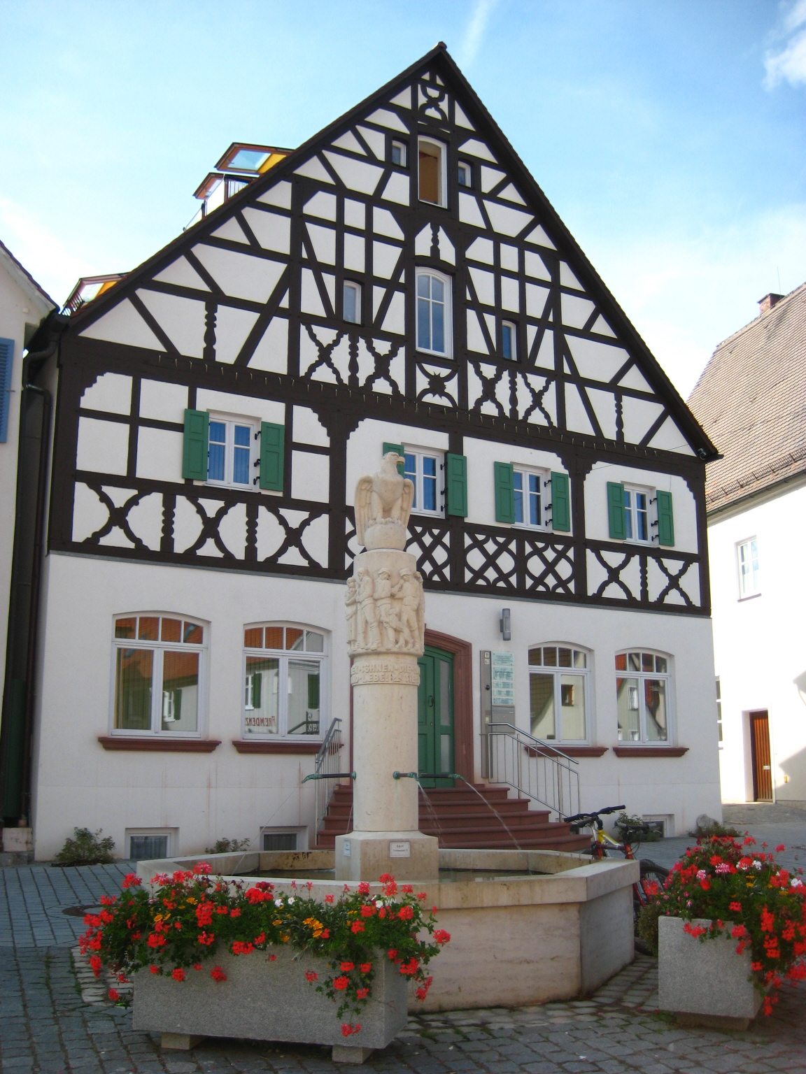 Fountain at the market square in Monheim, Bavaria.